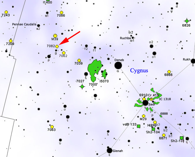 Map of NGC 7082